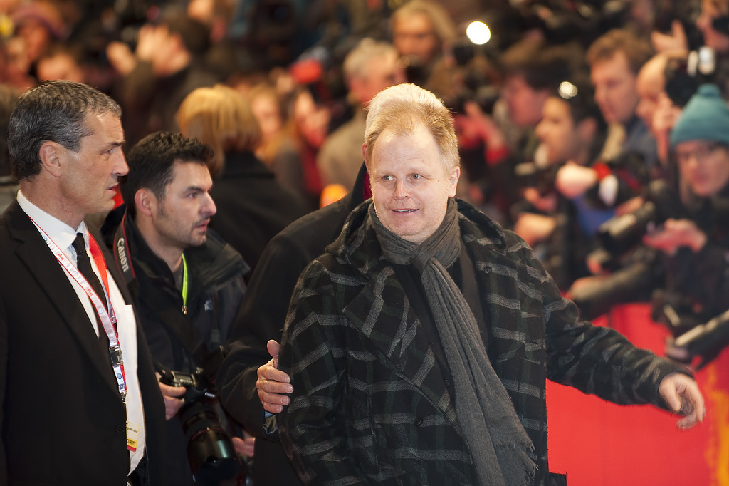 Herbert Grönemeyer (German musician and actor); arrival for the opening of the 59th Berlin International Film Festival